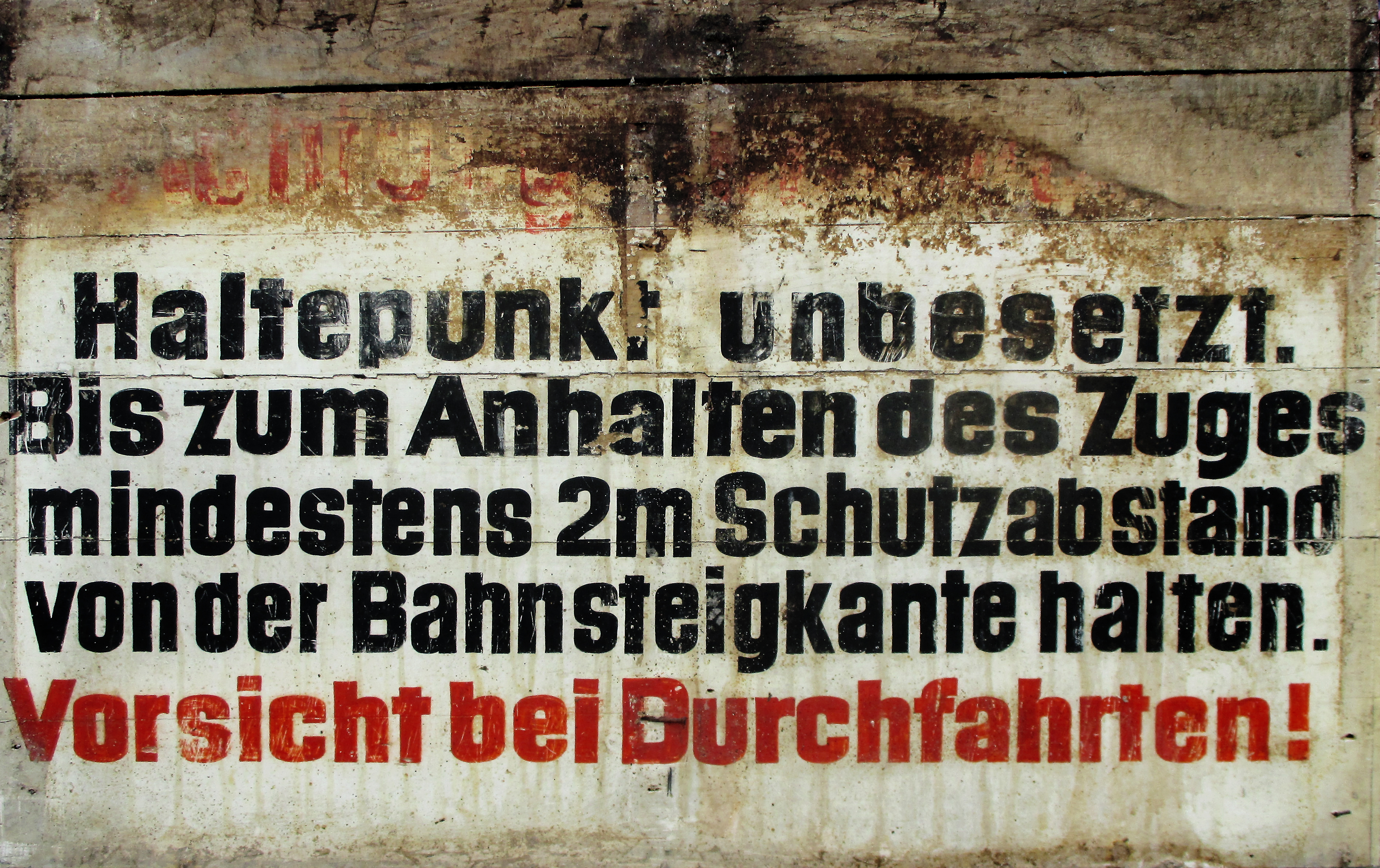 Wooden sign with a german warning text